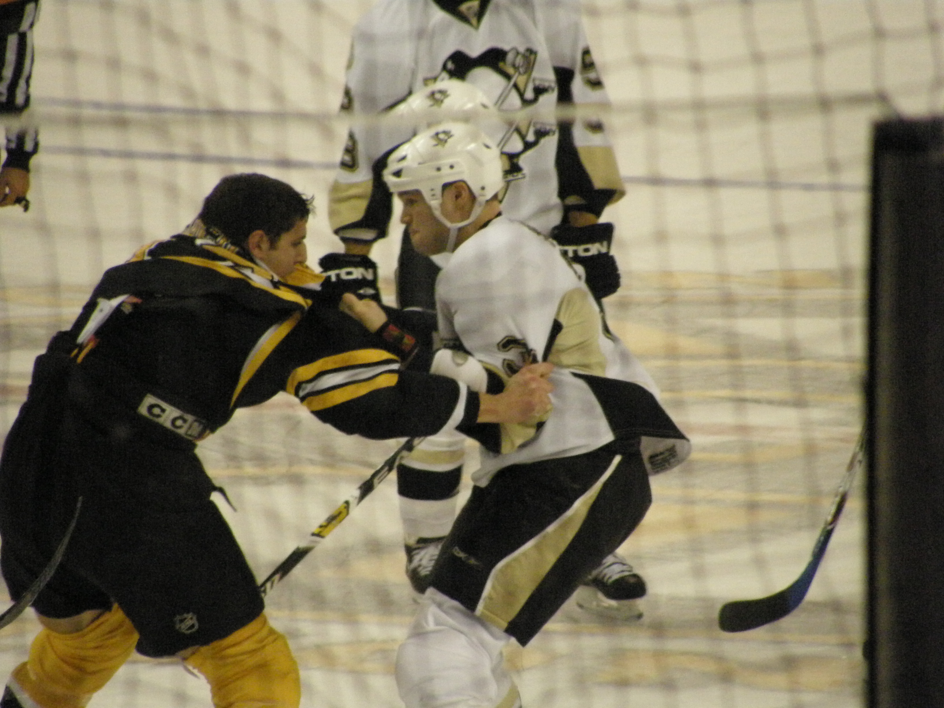 Both the netting and the glass distorted my view of the fight between #17 Milan Lucic (LW) and #37 Jarkko Ruutu (LW) (note Ruutu's doubled helmet from the glass. sigh)